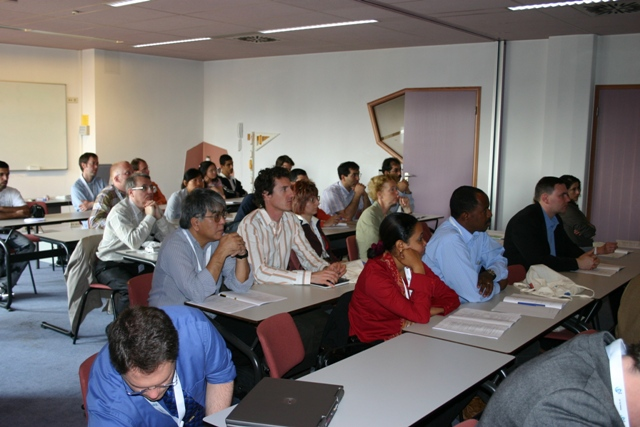 ITC Class Room